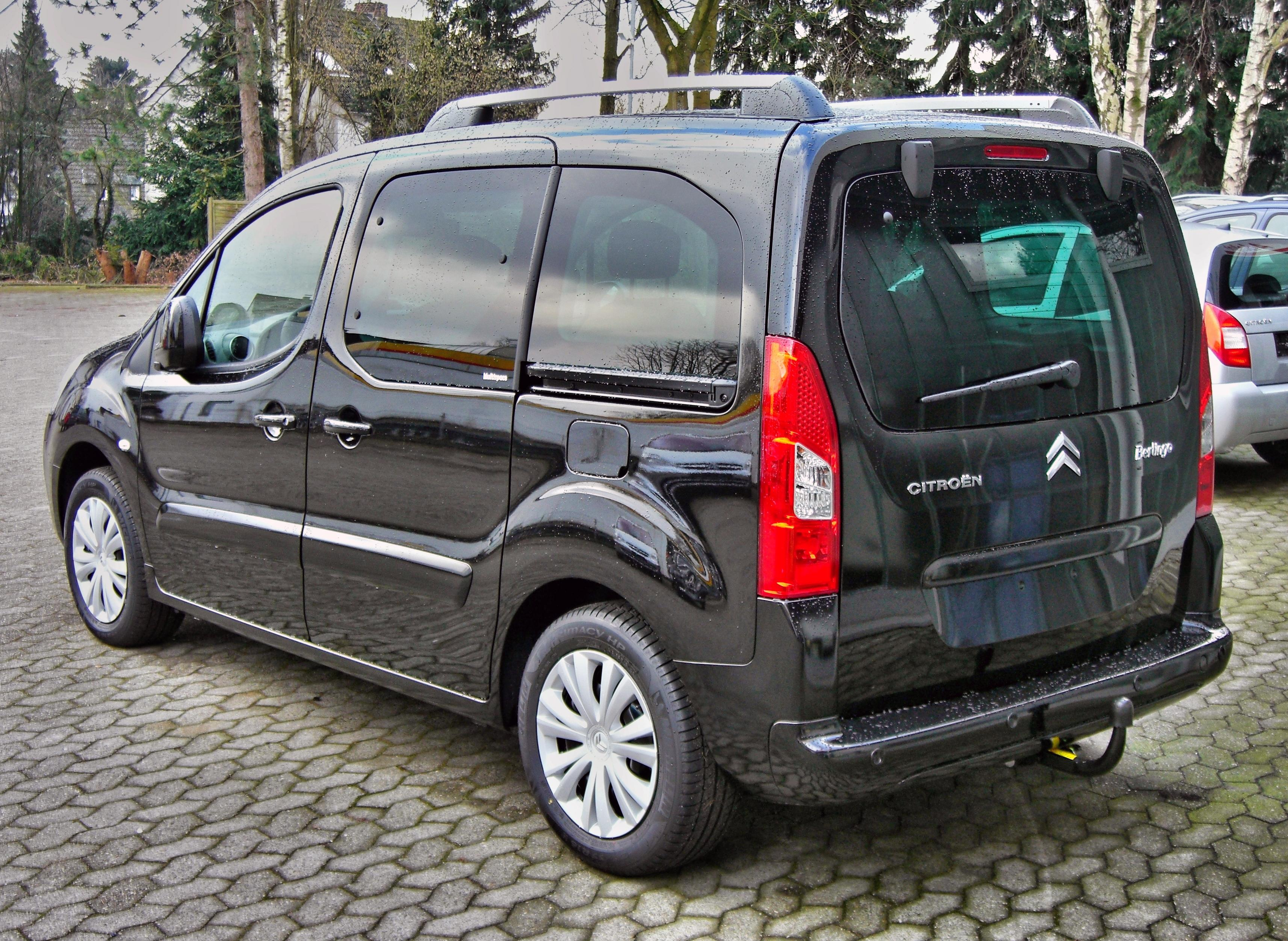 Citroën Berlingo II Multispace